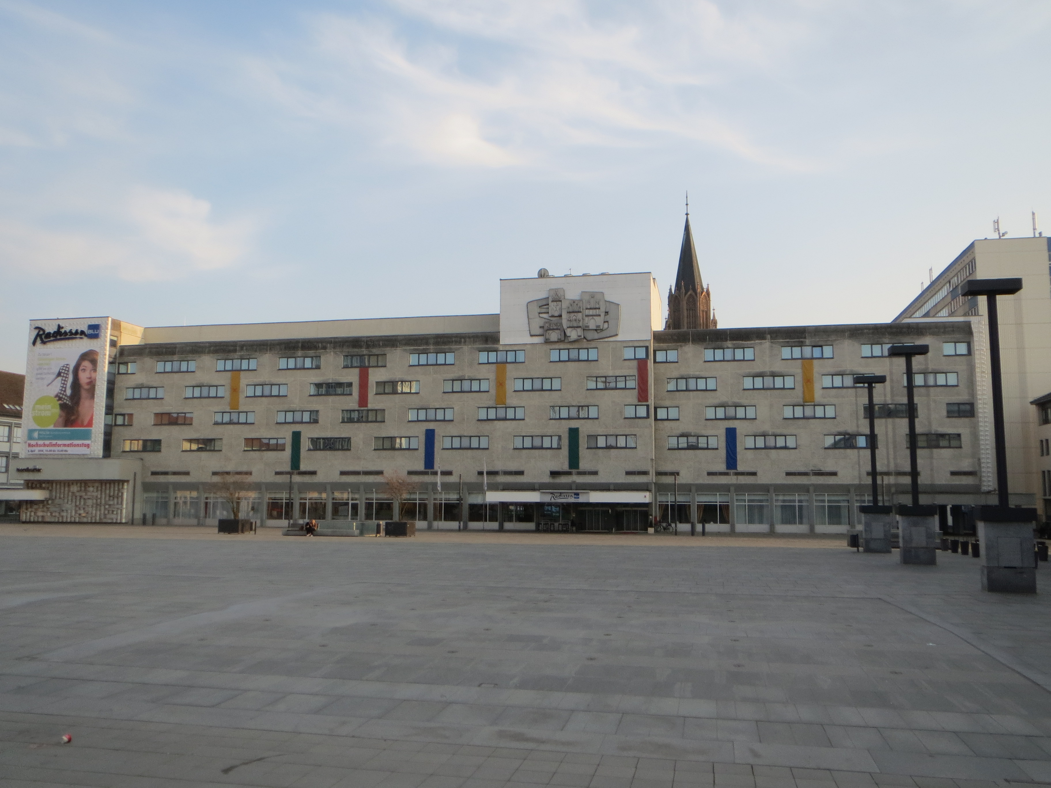 Radisson Hotel ex Hotel Vier Tore Neubrandenburg